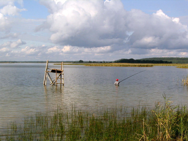 Snudy lake in Brasłaŭski Raion, Viciebskaja District, Belarus.